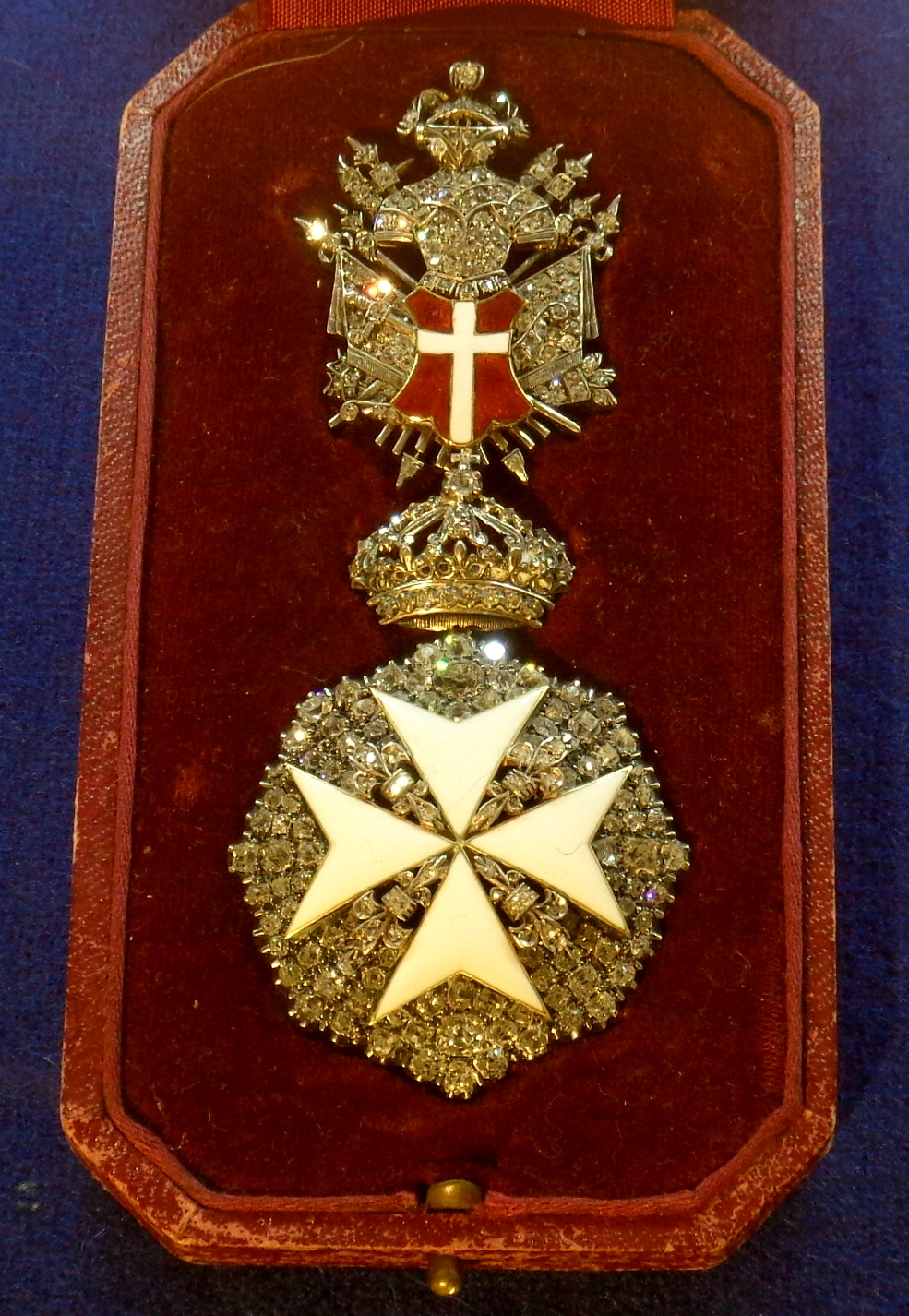 Sovereign Military Order of Malta. Commander's badge with diamonds. The exhibition of the Tallinn Museum of Orders of Knighthood, Estonia.